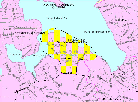 U.S. Census 2000 reference map for Poquott